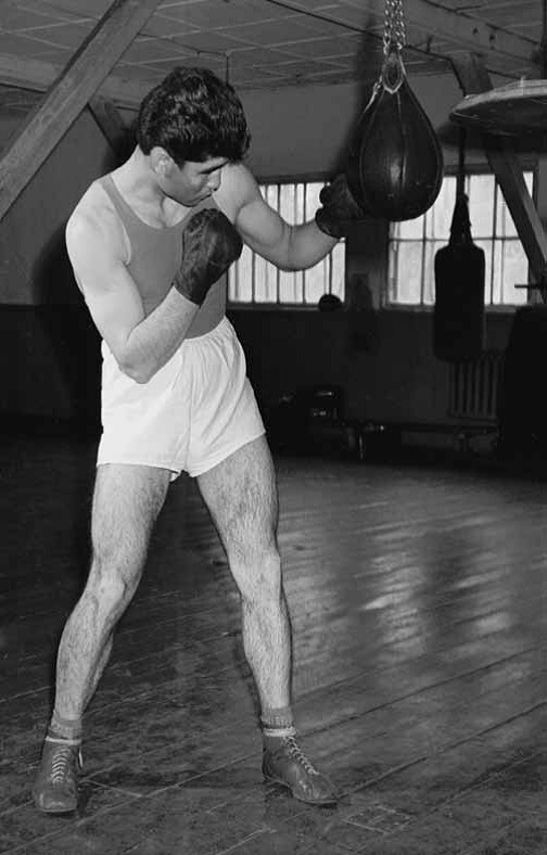 Abdysalan Nurmakhanov